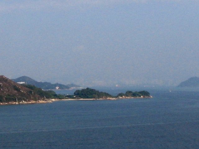 Photo of Man Kok Tsui